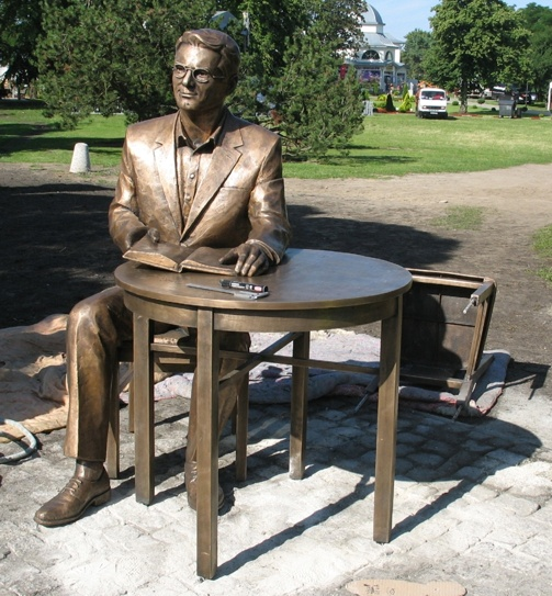 Memorial of Krzysztof Kolberger Polish actor in Miedzyzdroje Poland. Made by artist Michał Selerowski